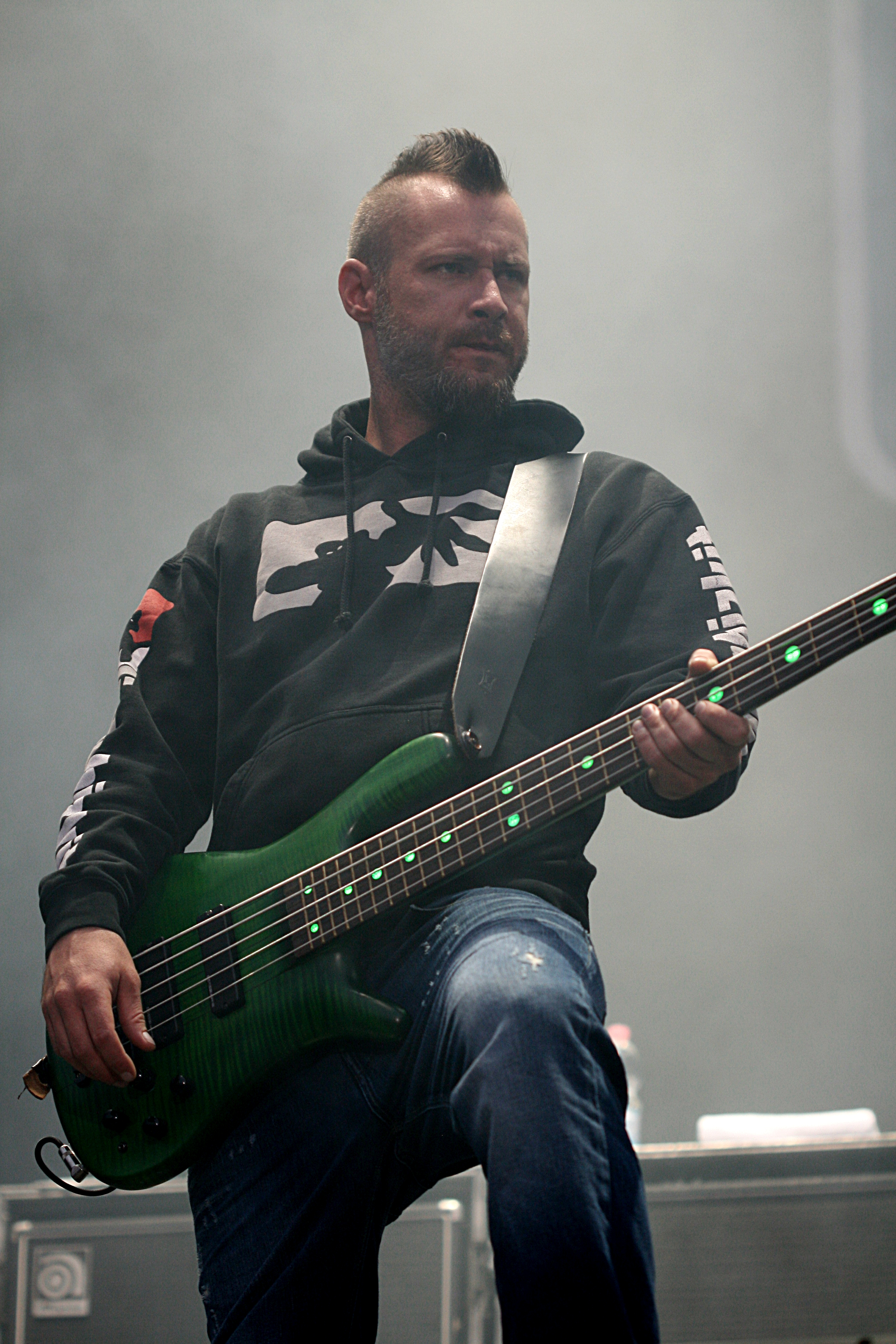 Sam Rivers, bass guitarist of Limp Bizkit, on the Alterna Stage of Rock im Park-Festival 2013. Festivalsommer This photo was created with the support of donations to Wikimedia Deutschland in the context of the CPB project "Festival Summer".